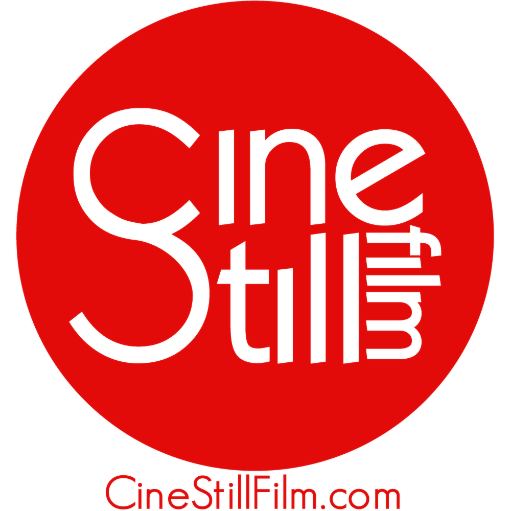 The logo image used by Cinestill Film.